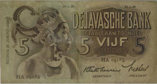 Banknote of the National Bank of the Dutch East Indies